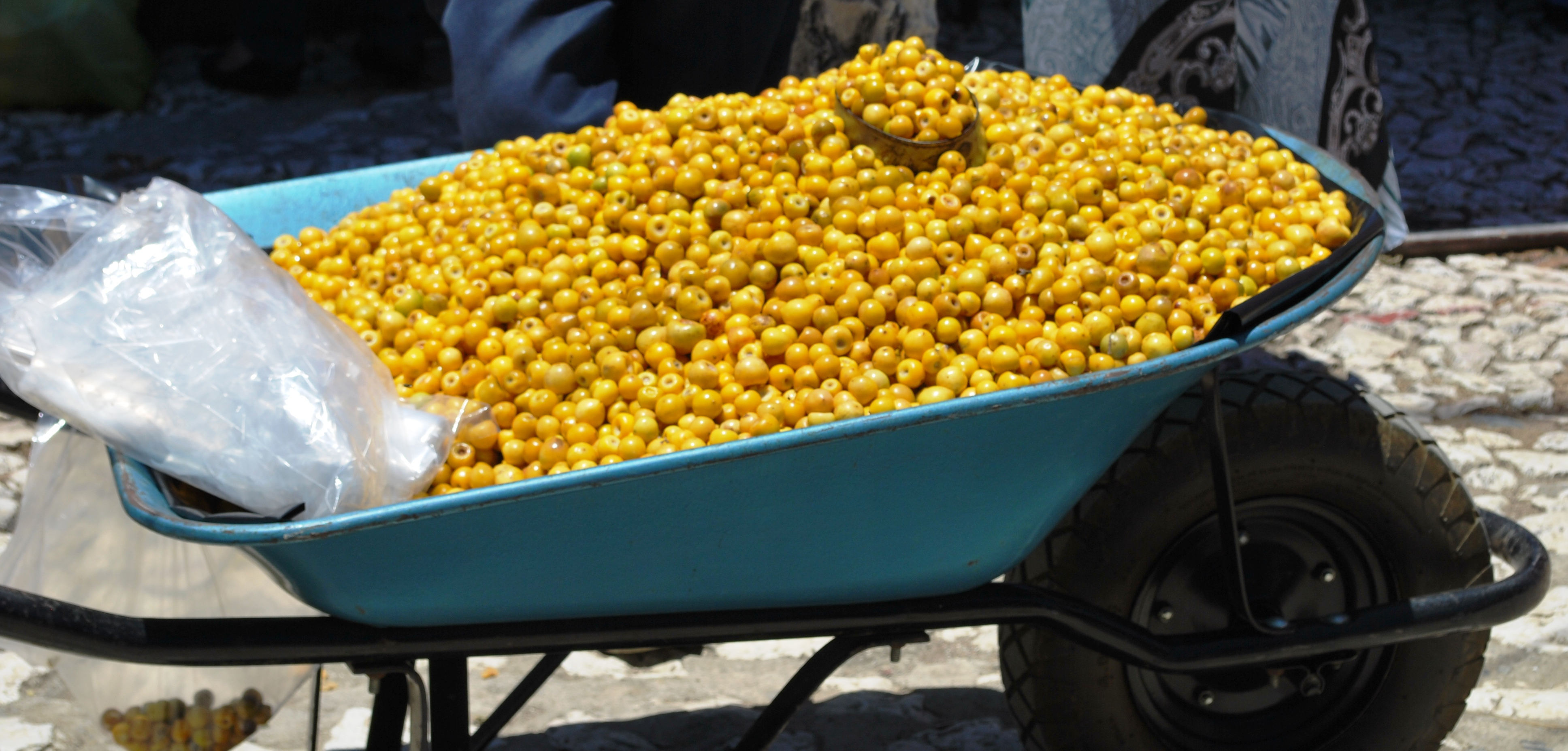 Wheelbarrow full of a fruit called "nanches" in Ixcateopan, Guerrero, Mexico